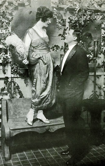 Scene from Oh, Lady! Lady!! (1918) showing Vivienne Segal and Carl Randall. Printed in and scanned from vocal score of Oh, Lady! Lady! by Jerome Kern, Guy Bolton and P G Wodehouse, Publisher, T.B. Harms, New York, 1918.